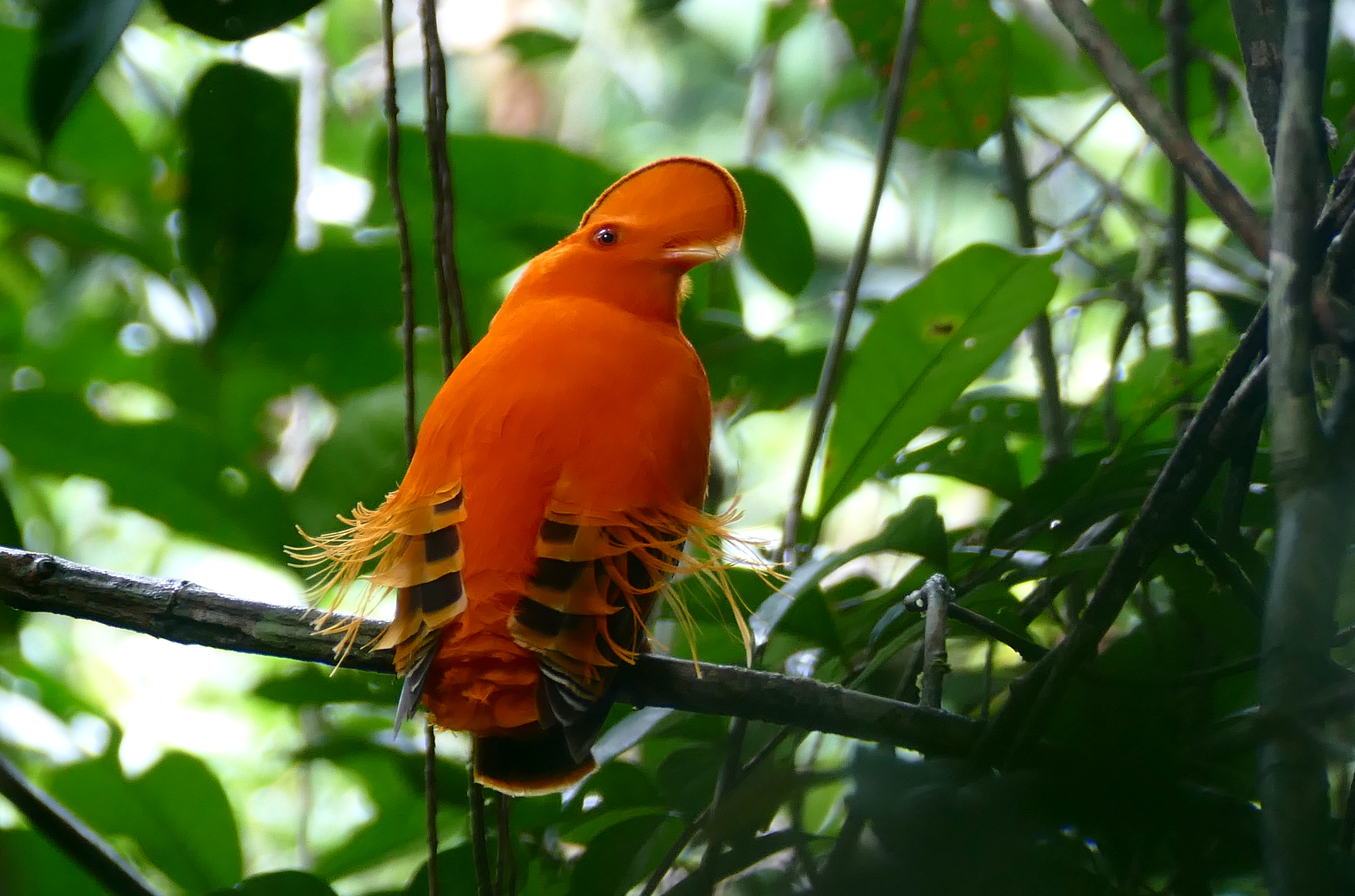 PK41, D6 Route de Kaw, Roura, French Guyana, FRANCE